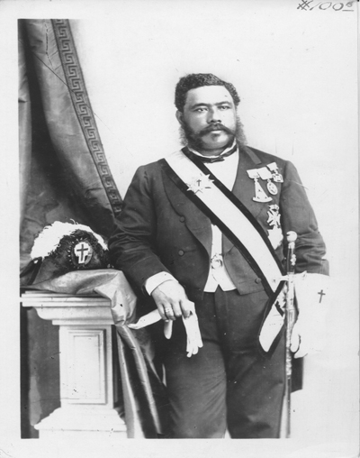 Kalakaua, wearing the regalia of the Knights Templar (Freemasonry). This image is distorted.